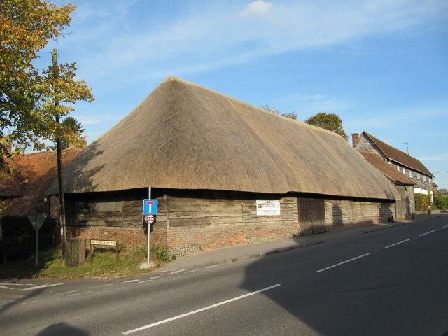 Great Tree Farm Barn, London Road, Blewbury, Oxfordshire (formerly Berkshire) after being re-thatched